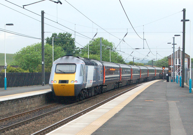 Alnmouth railway station (6)